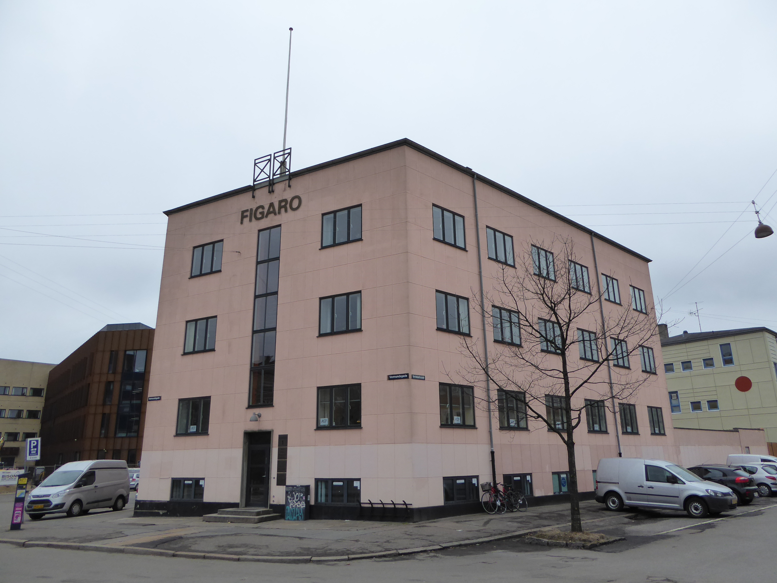 The hairdresser trade union Dansk Frisør & Kosmetiker Forbund at Vermundsgade in Østerbro in Copenhagen.